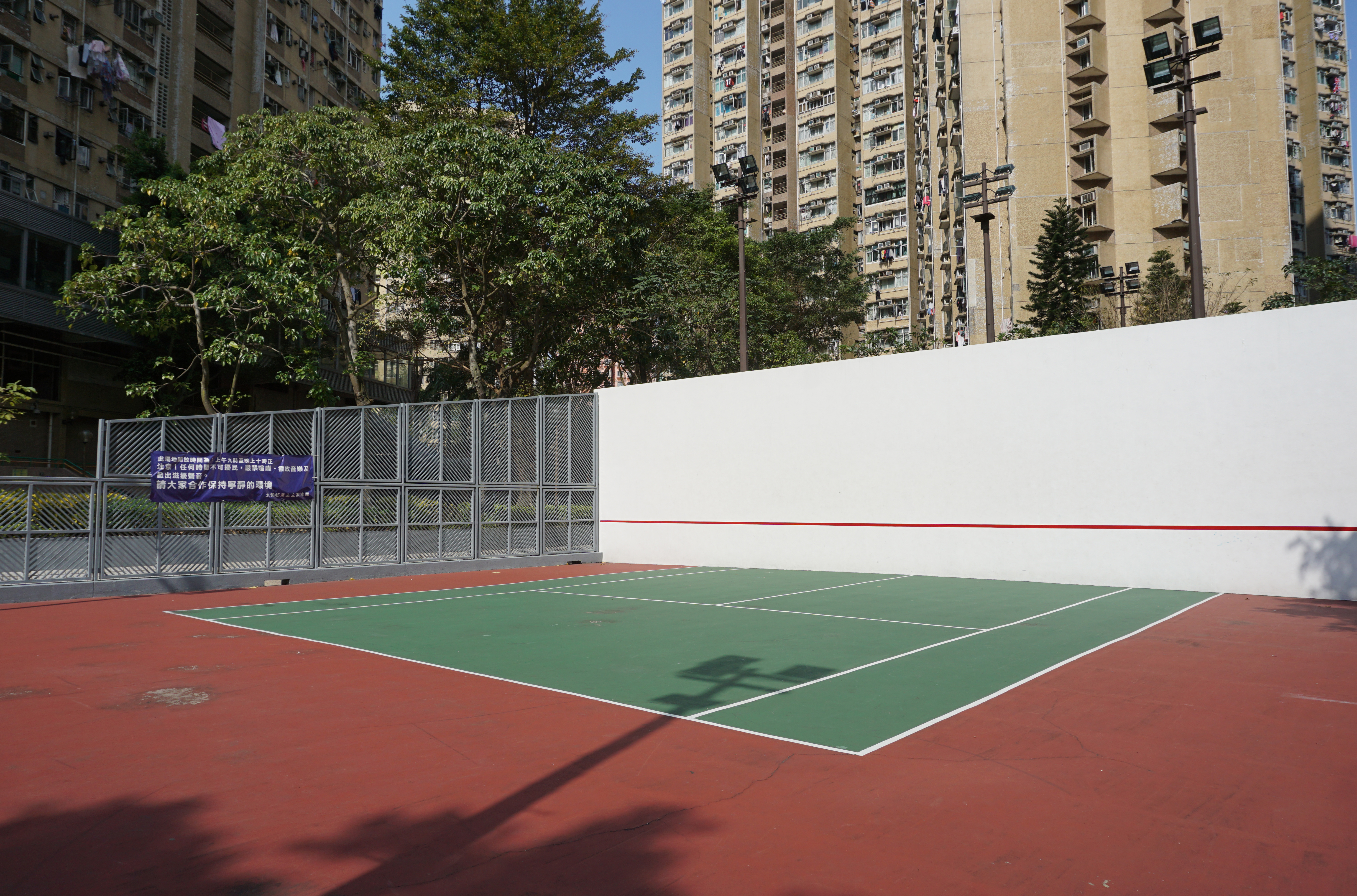 Tai Wo Estate in Tai Po, Hong Kong.